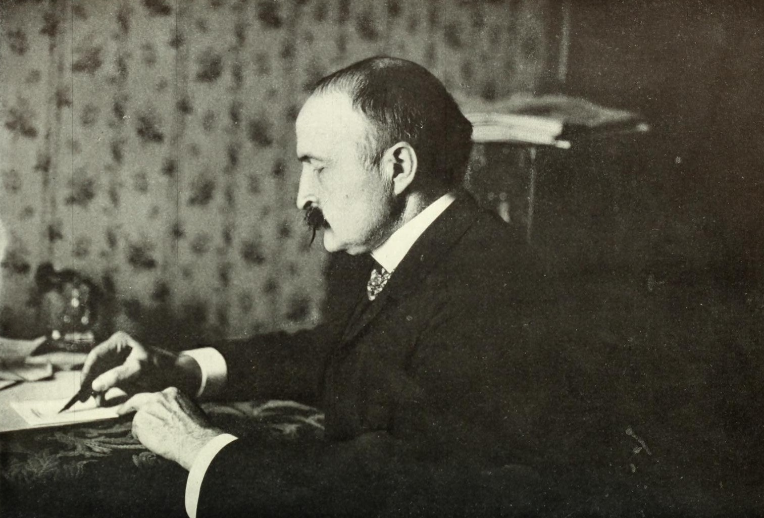 Portrait of Philippe-Jean Bunau-Varilla